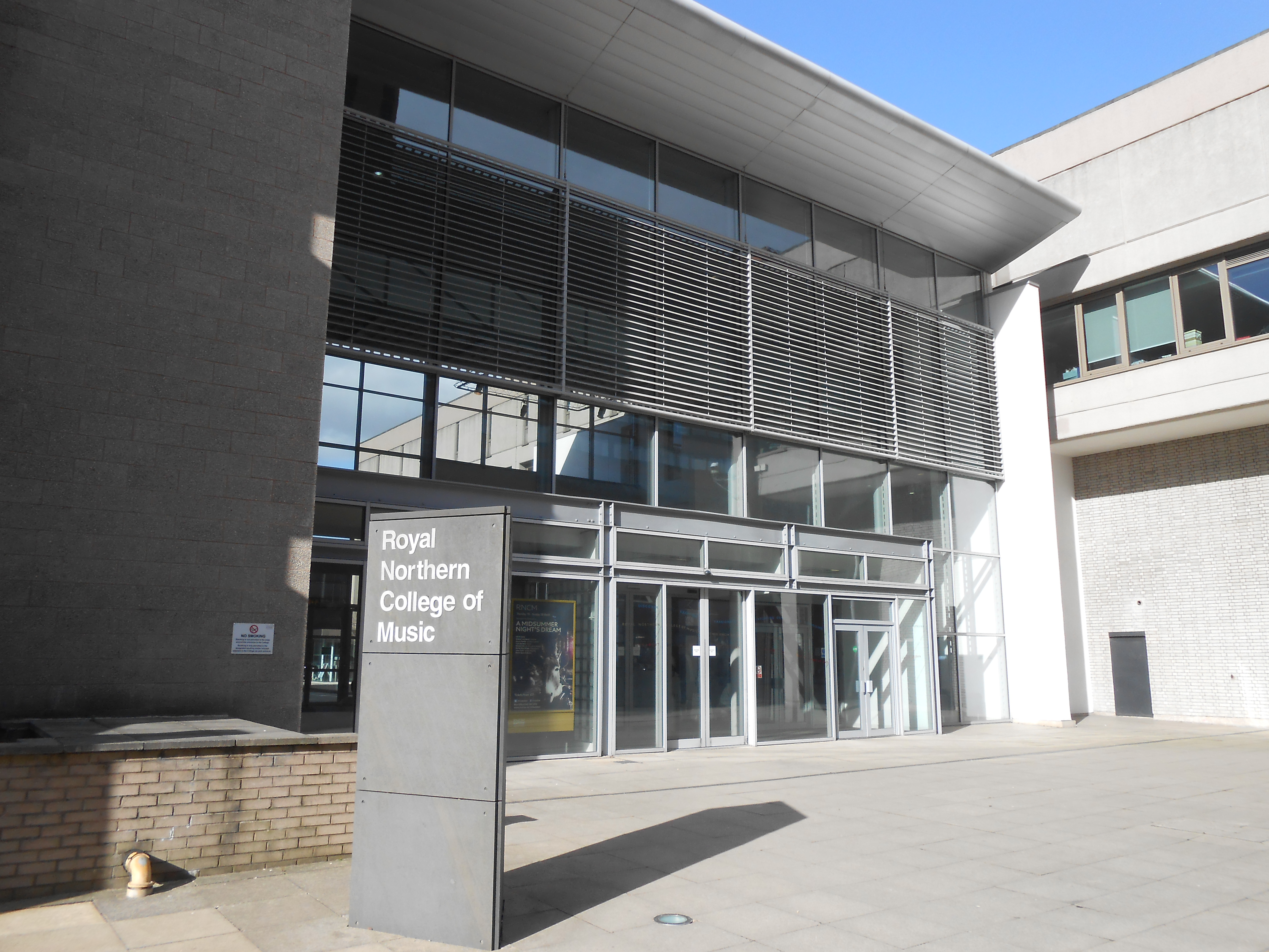 Royal Northern College of Music, Manchester, England. Booth Street West entrance.